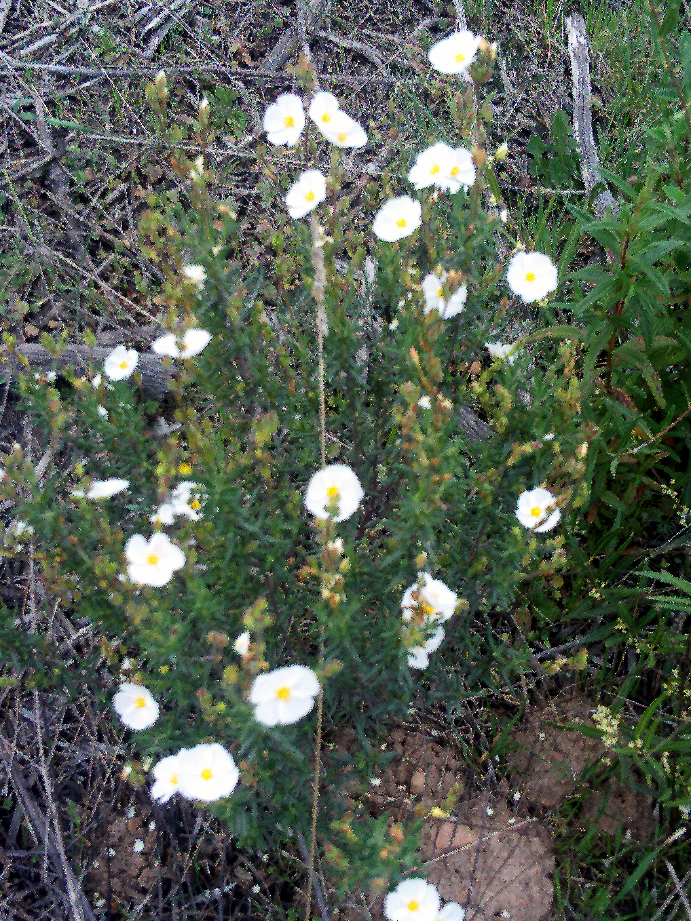 Cistus clusii habitus, Dehesa Boyal de Puertollano, Spain